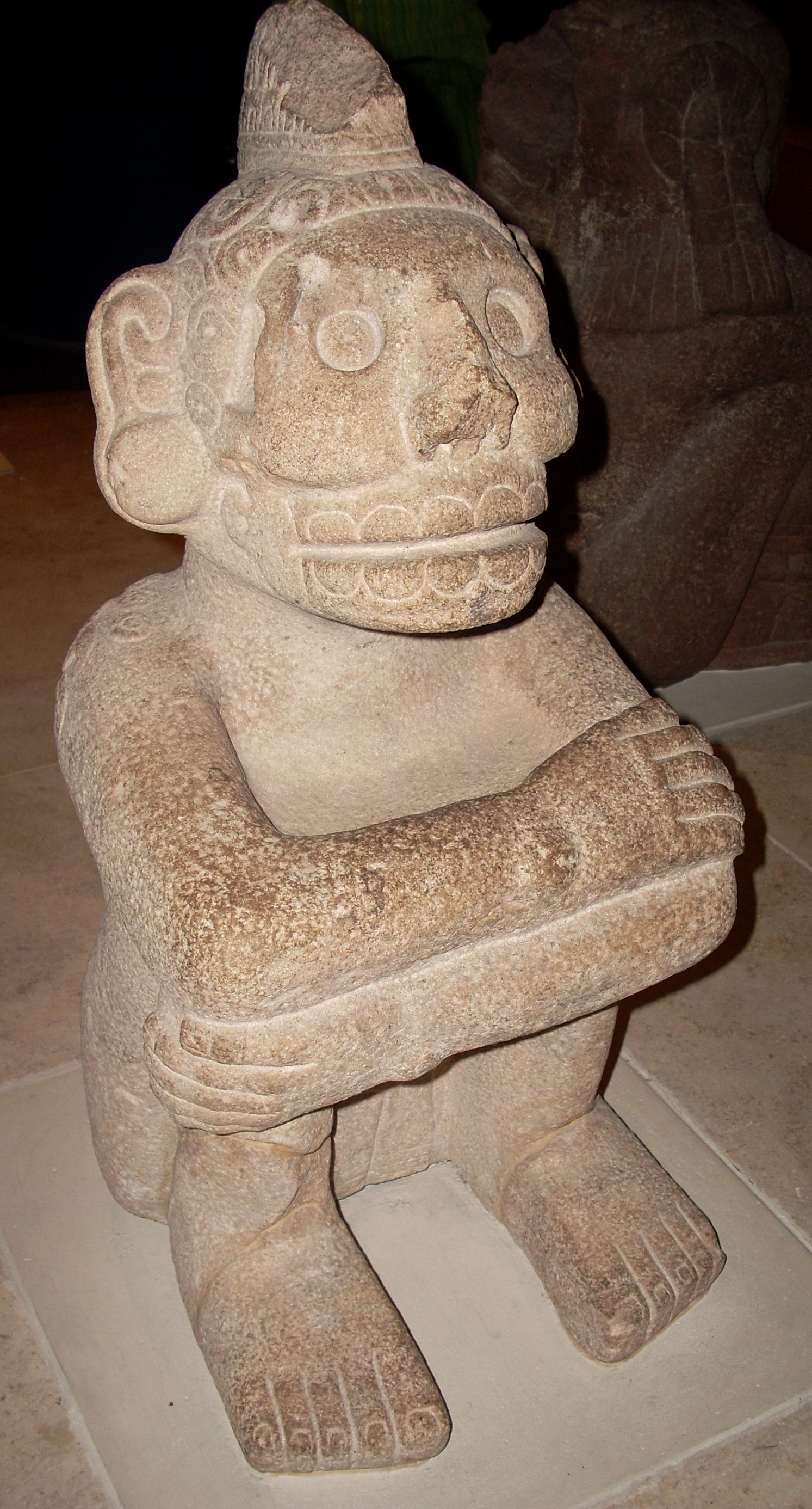 Statuette of Mictlantecuhtli, the Aztec Lord of the Land of the Dead, in the British Museum.